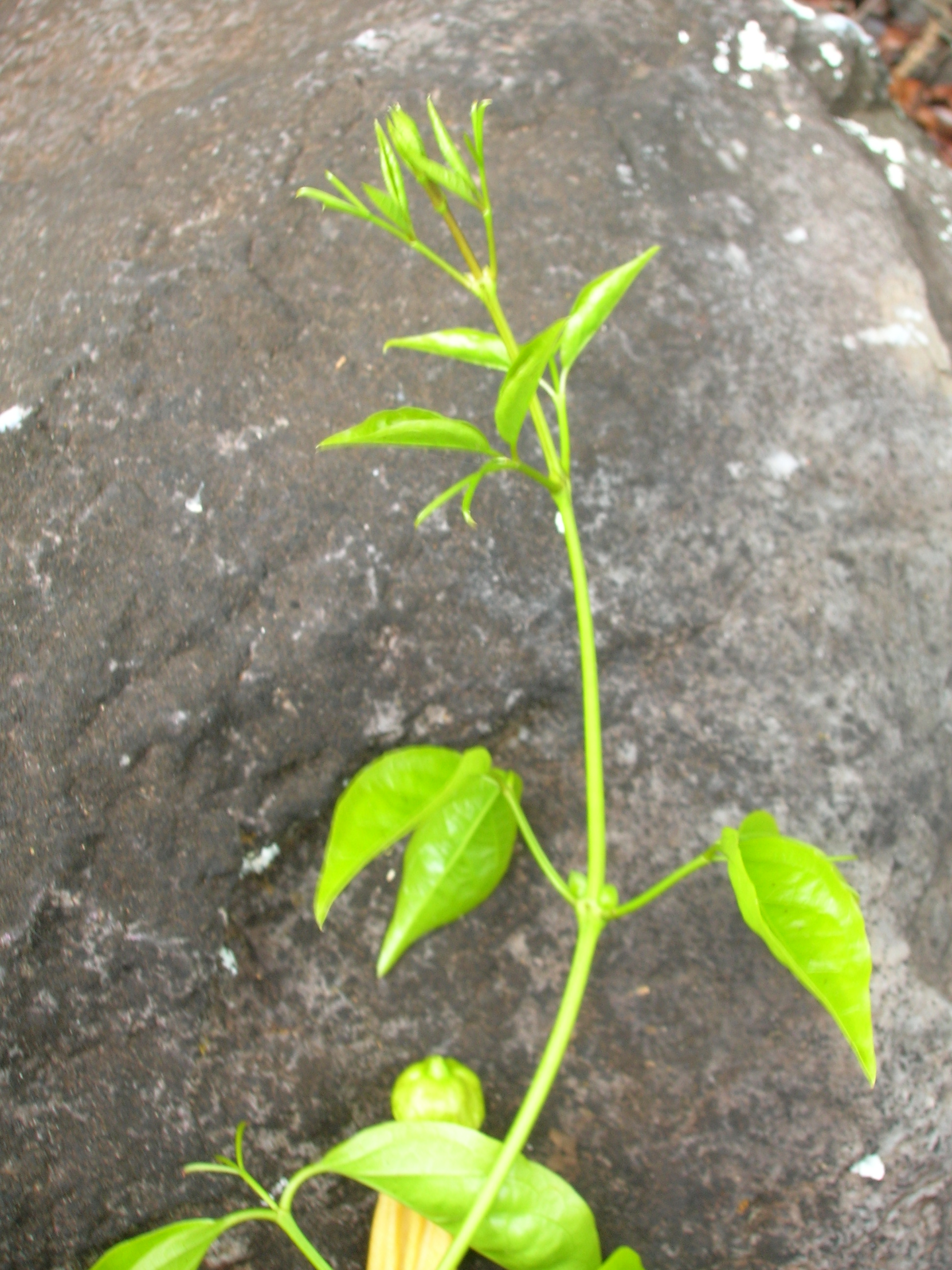 Macfadyena unguis-cati (stem leaves and claws). Location: Maui, Baldwin Ave Makawao